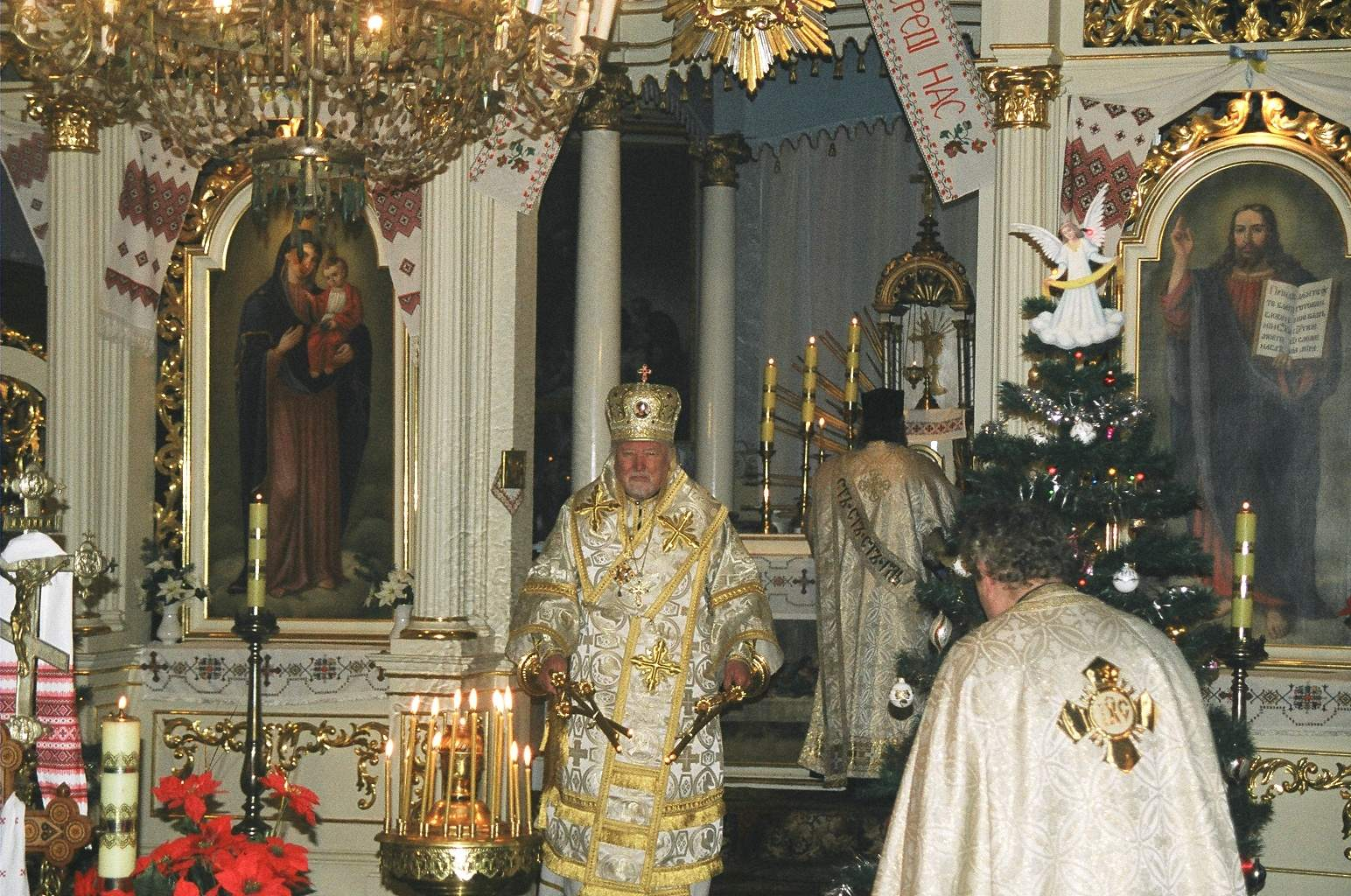 Eastern Orthodox church (cerkiew) in Sanok